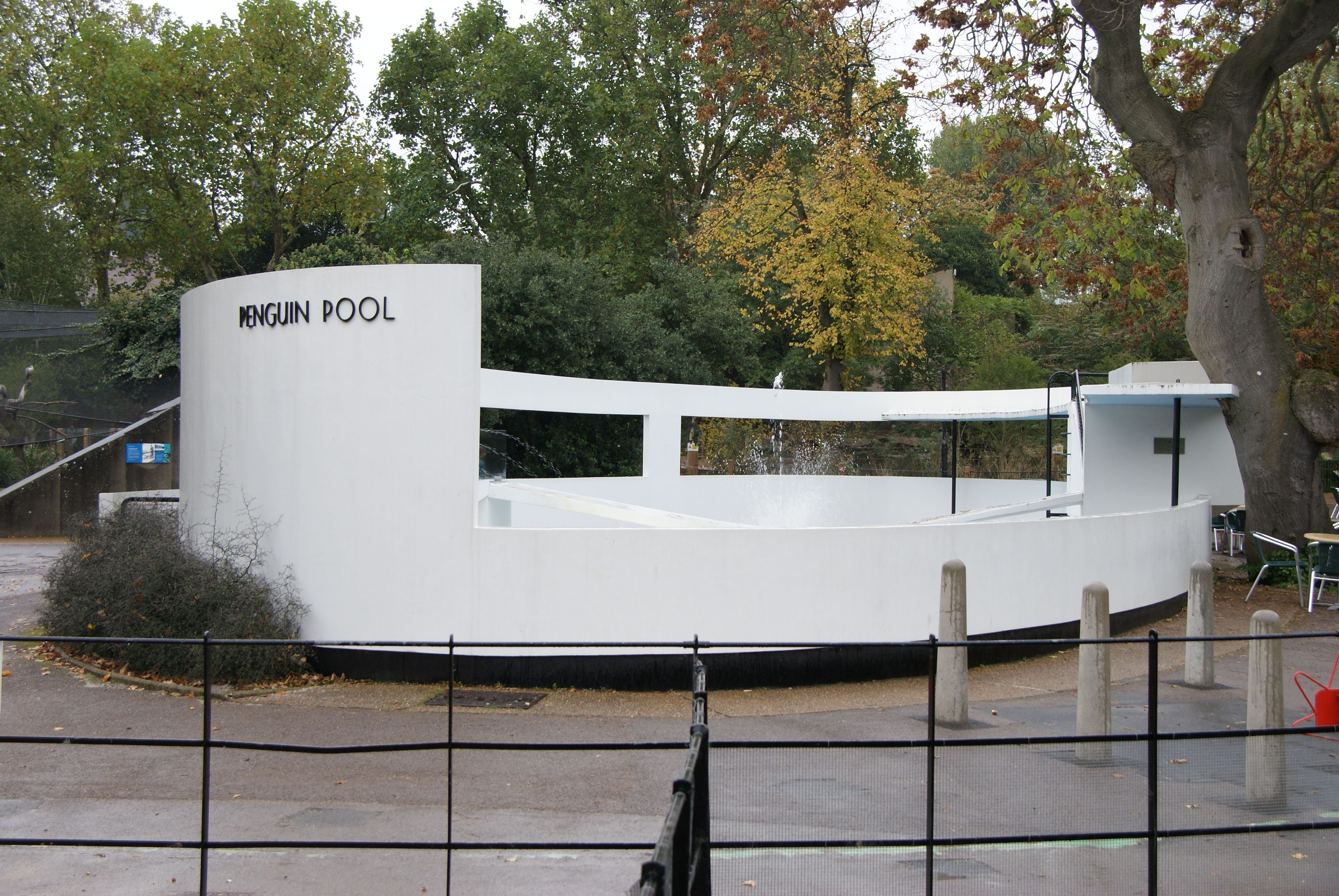 Grade 1 listed Penguin pool, London Zoo, England. Now a water feature and not used to keep Penguins.